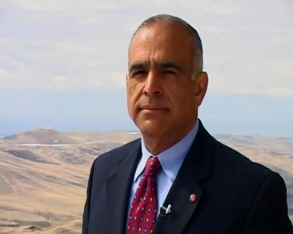 Armenian Foreign Minister from 1991-1992 Raffi Hovannisian during the 2012 parliamentary campaign